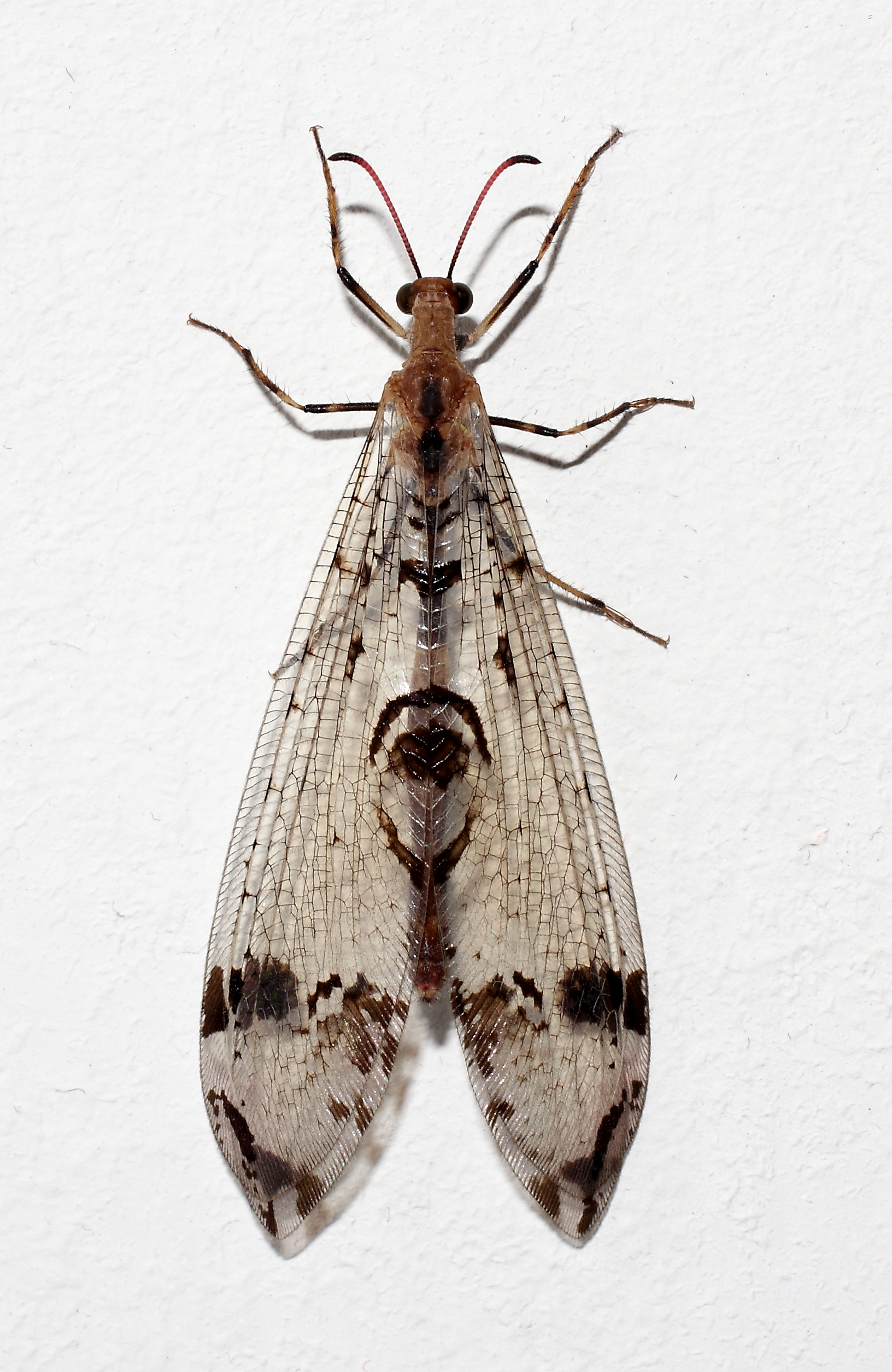 Dendroleon panterinus, picture taken in Stattegg, Styria, Austria